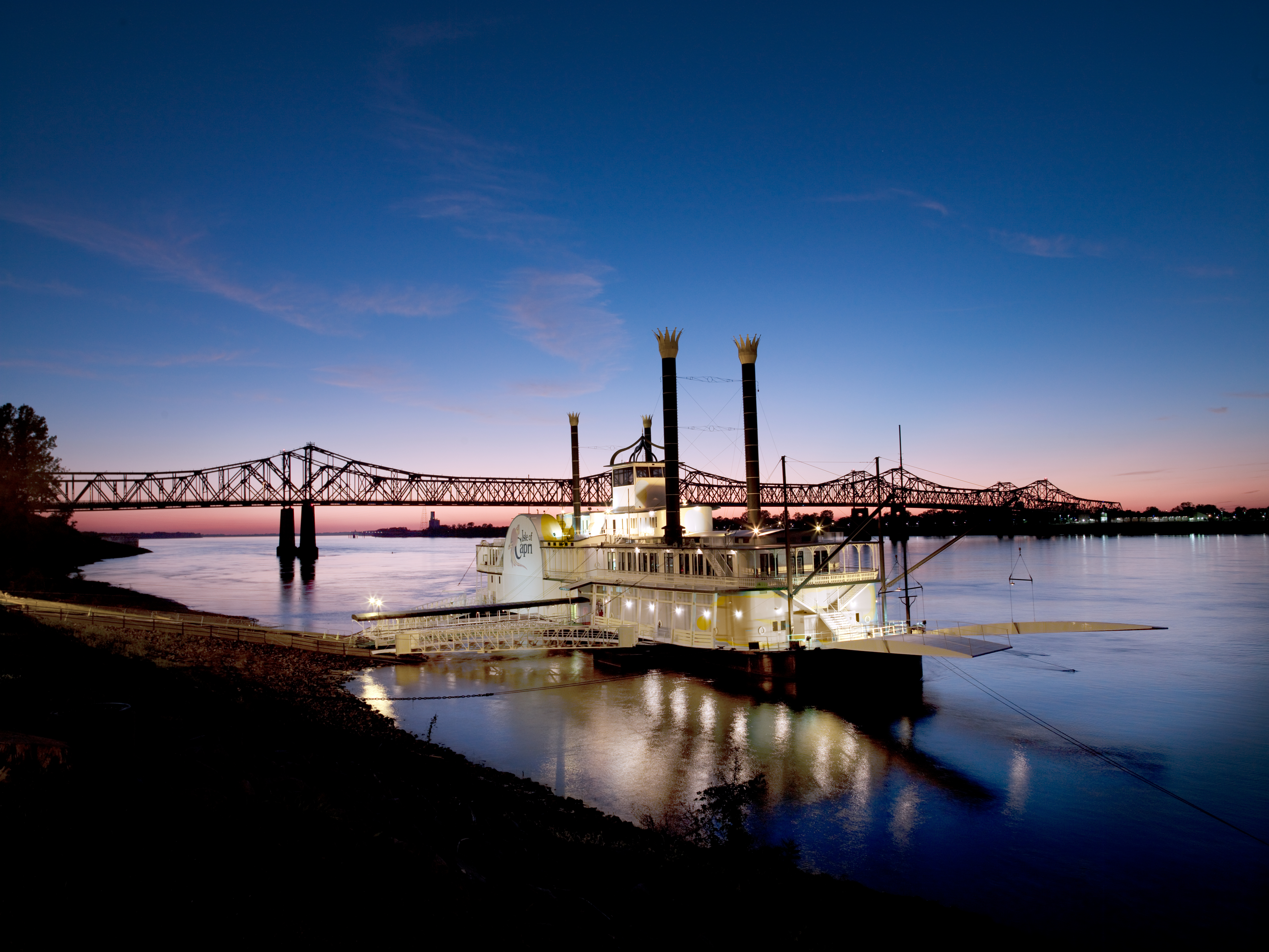 Casino Boat on the Mississippi River, Natchez, Mississippi.